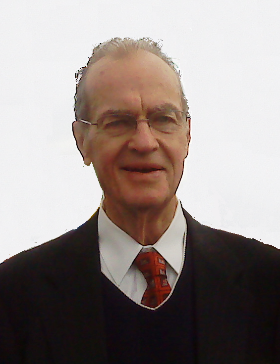 Don Adams, president of the Watch Tower Bible and Tract Society of Pennsylvania, a legal entity run by Jehovah's Witnesses. Munich, July 2009.